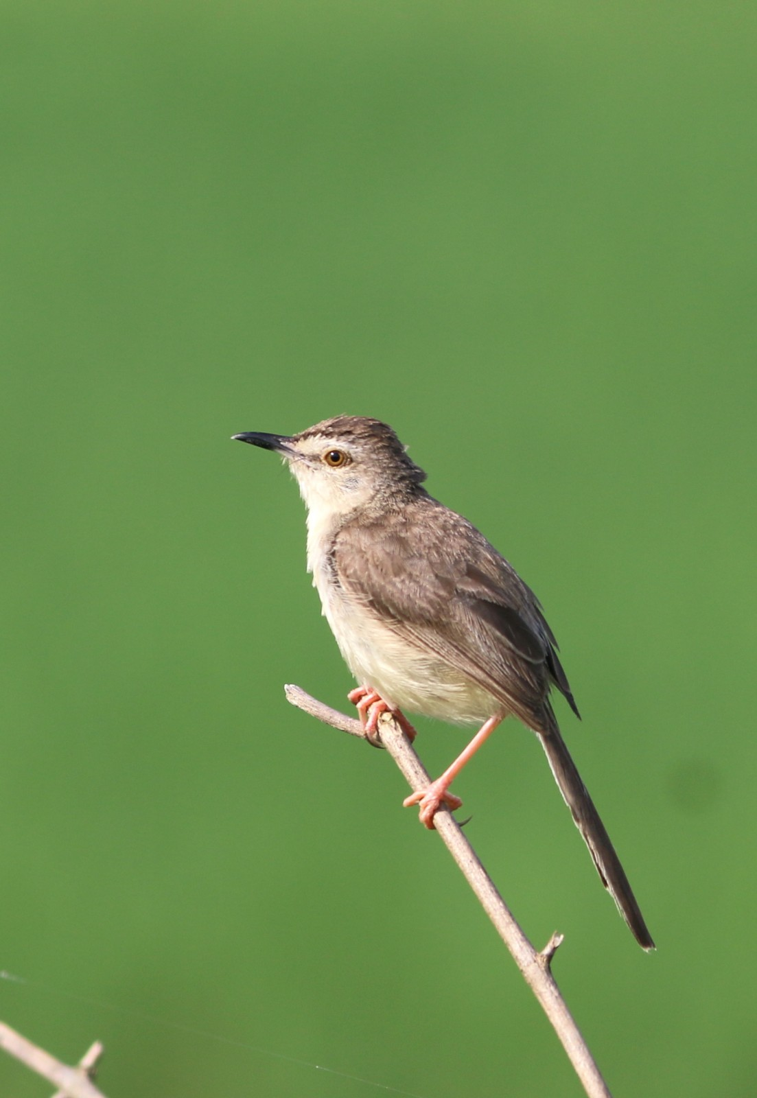 Plain prinia bird